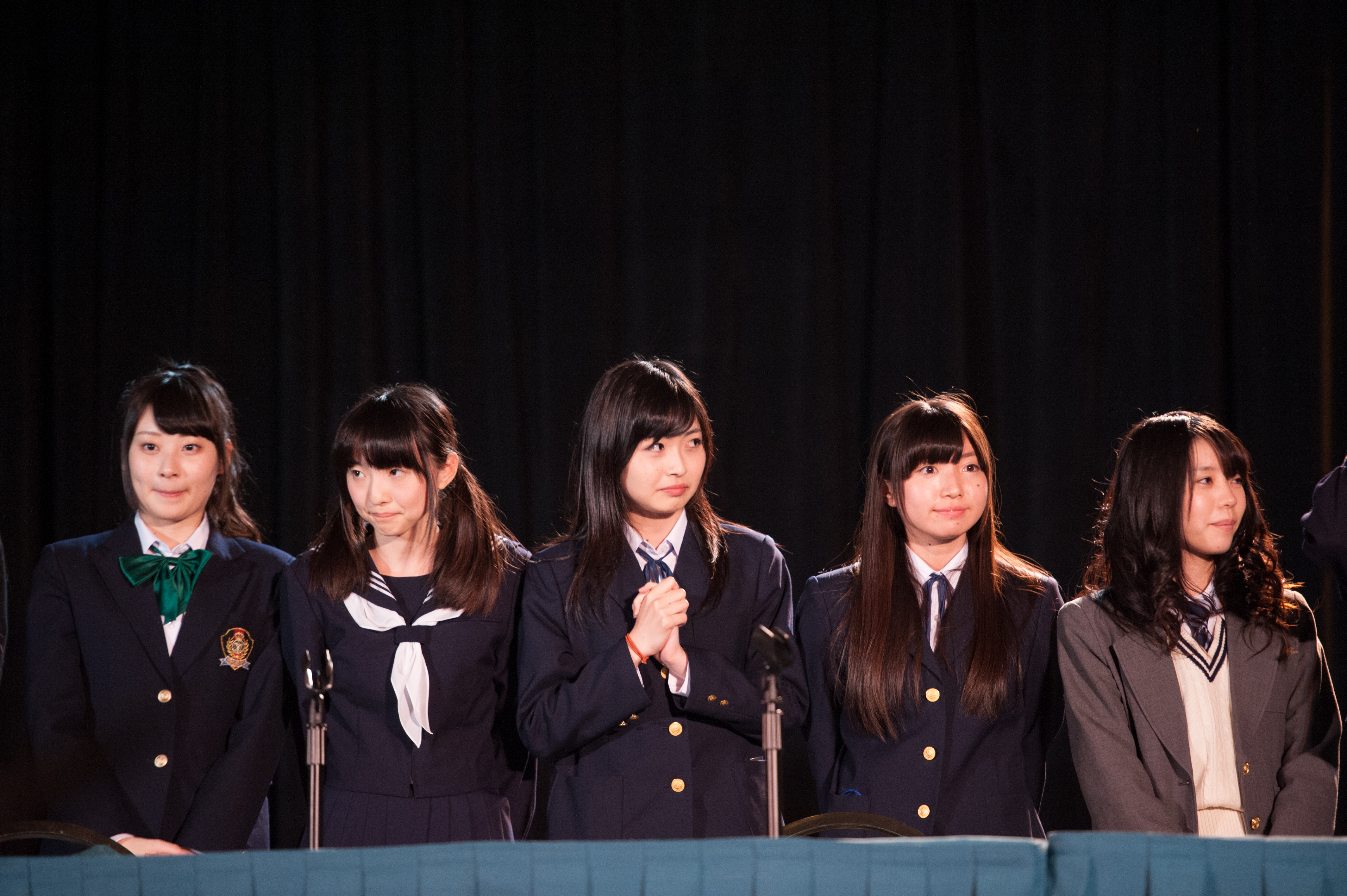 Wake Up, Girls! cast members at Anime Central 2014.